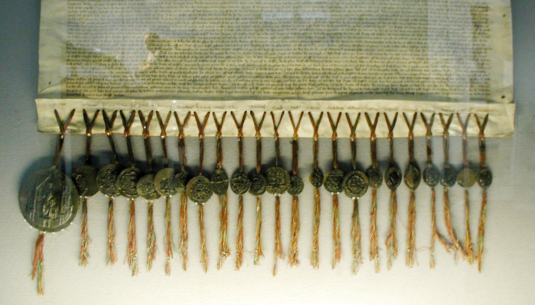 Seals of the medieval Cologne, Germany